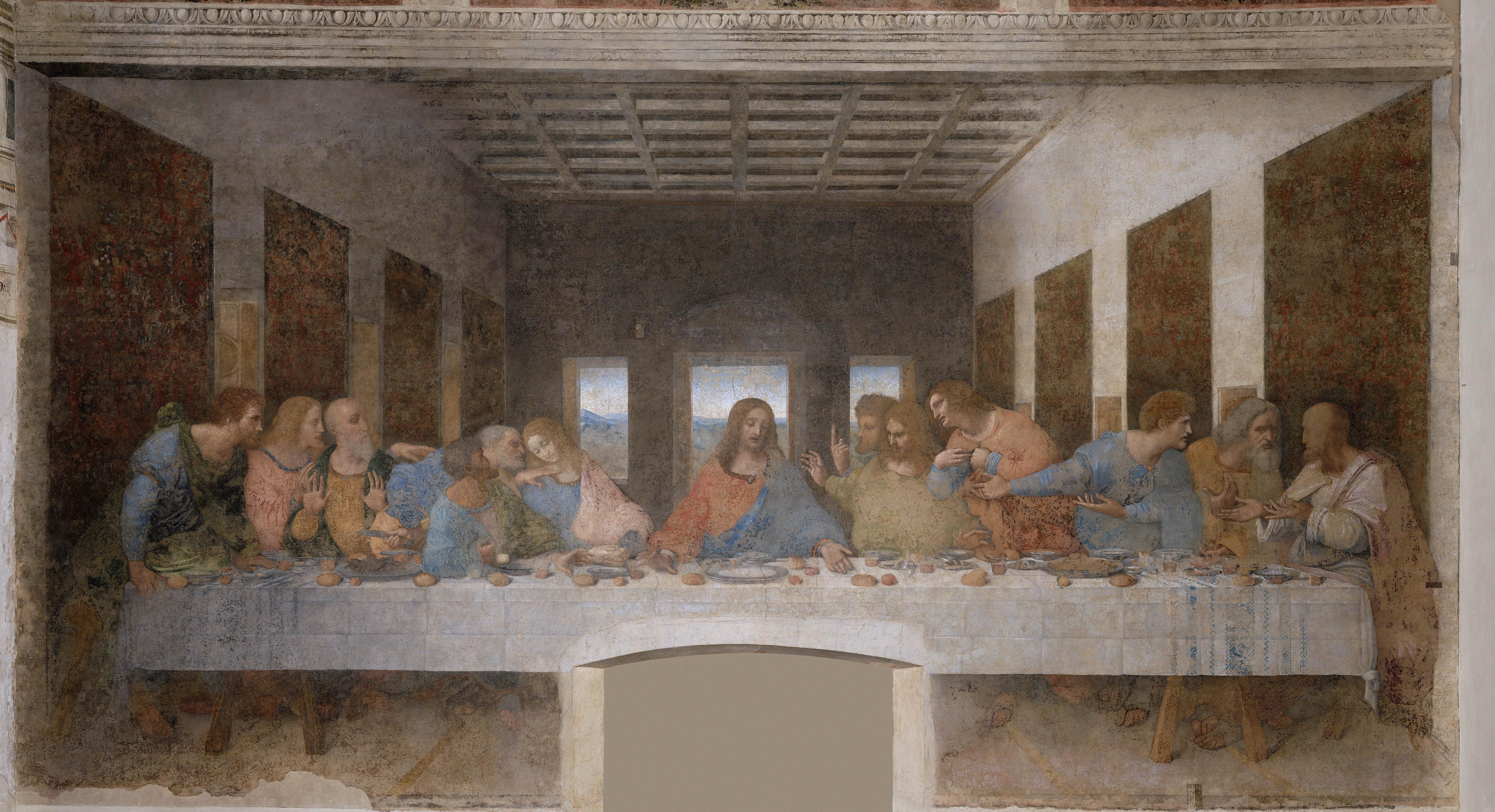 Public Domain version of Leonardo da Vinci's Last Supper. High-resolution JPEG image, with no watermarks.